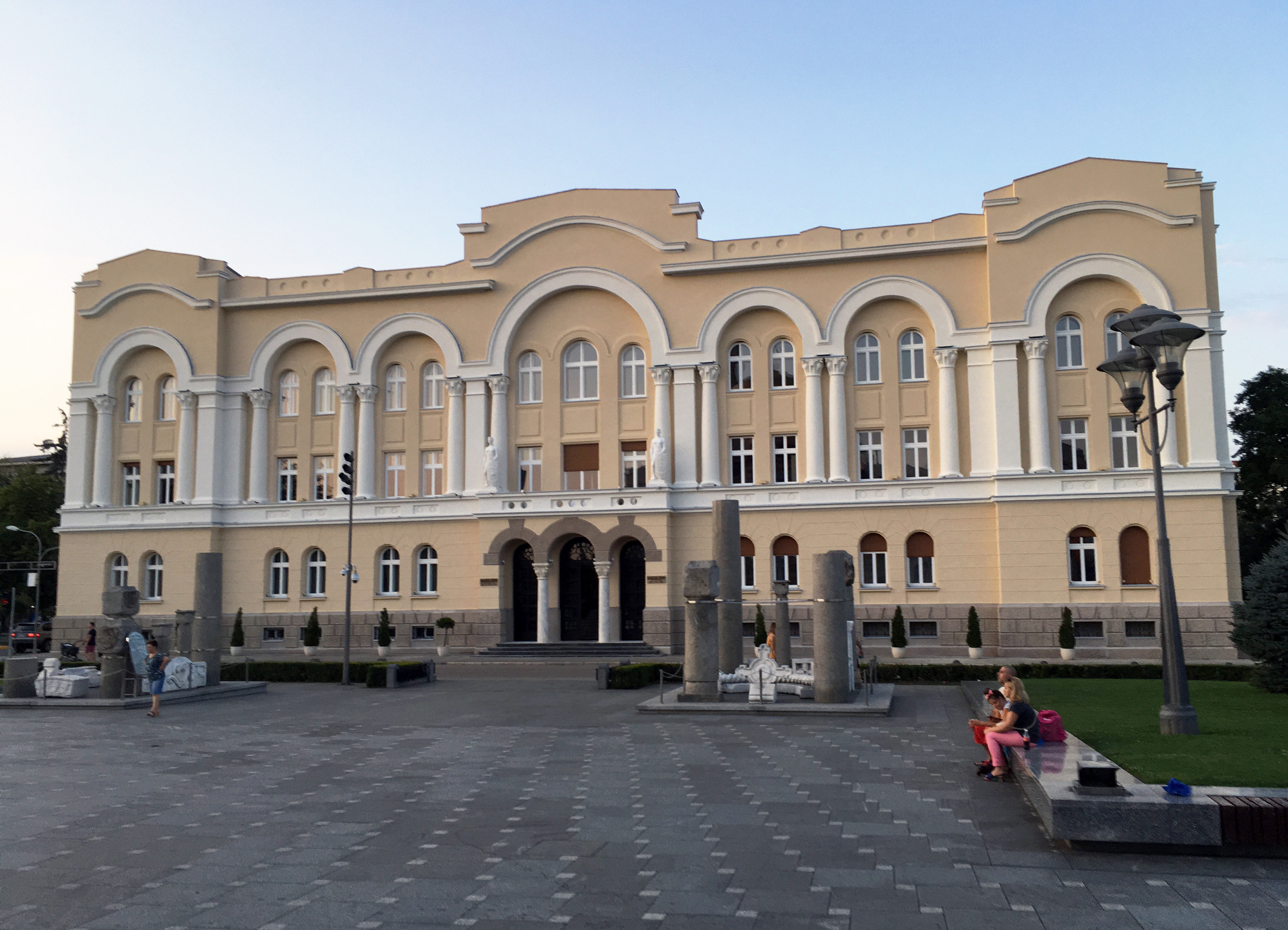 Banski Dvori, Banja Luka